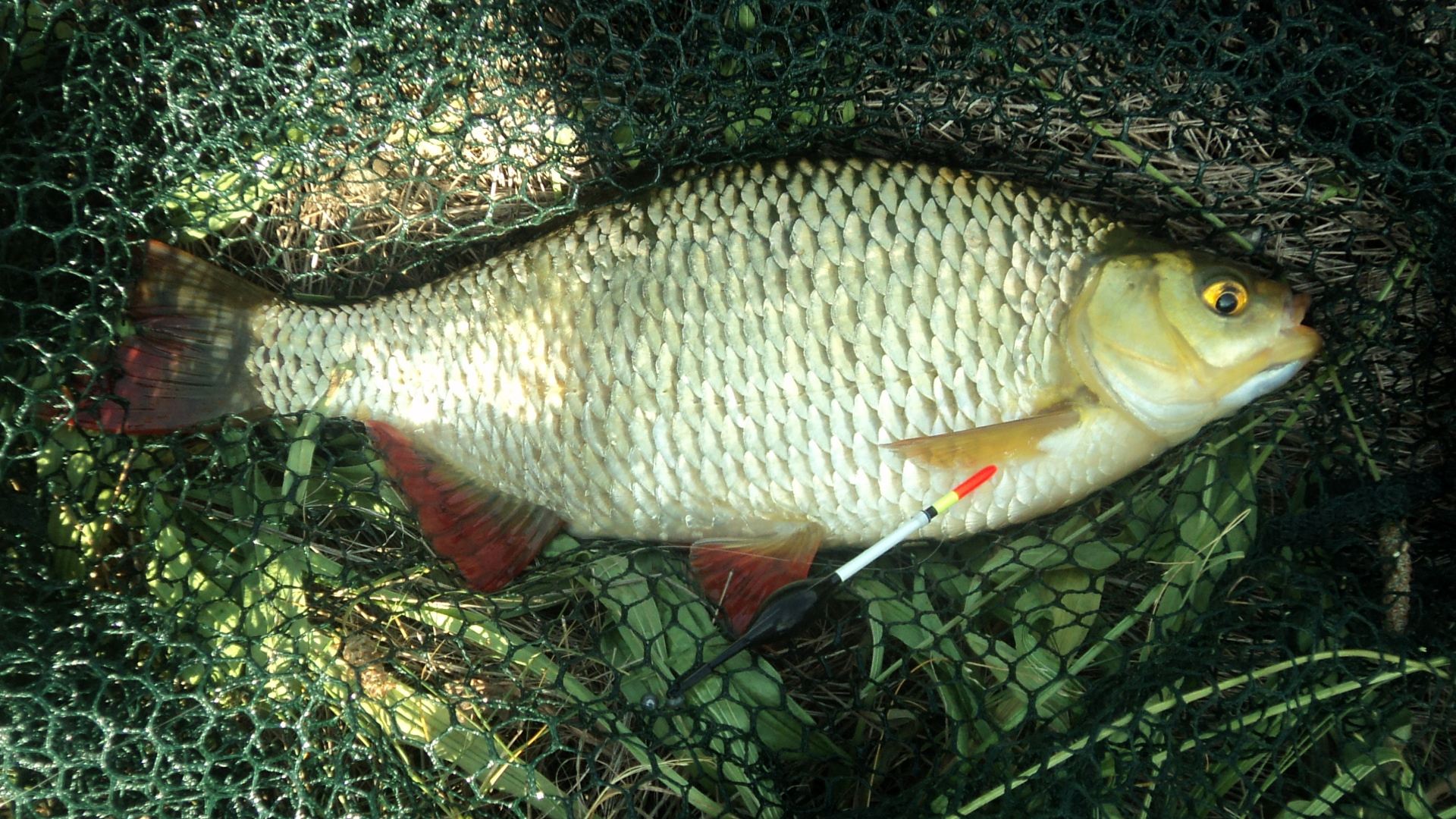 Common rudd (about 30cm in length) caught in Belgium with an ultralight hand built rod especially designed to fish on this species with a soft piece of bread or other vulnerable baits.